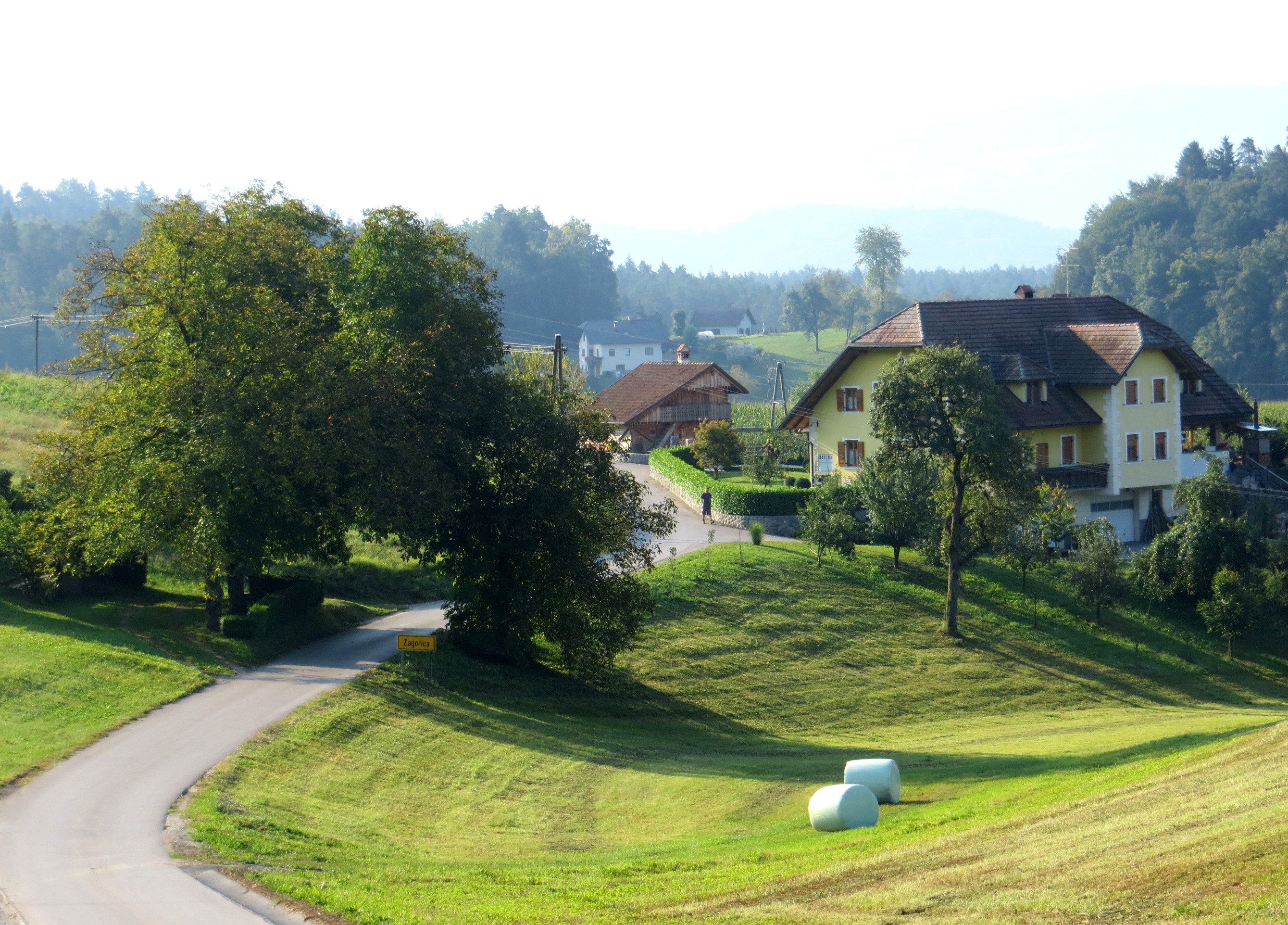 Zagorica pri Rovah, Municipality of Domžale, Slovenia